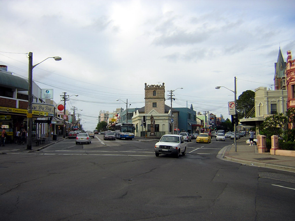 Cnr Belmore Rd and Avoca St, Randwick, NSW. Photo by me.